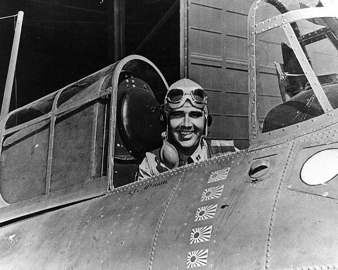 Lt. Butch O'Hare seated in the cockpit of his Grumman F4F "Wildcat" fighter, circa spring 1942. The plane is marked with five Japanese flags, representing the five enemy bombers he was credited with shooting down